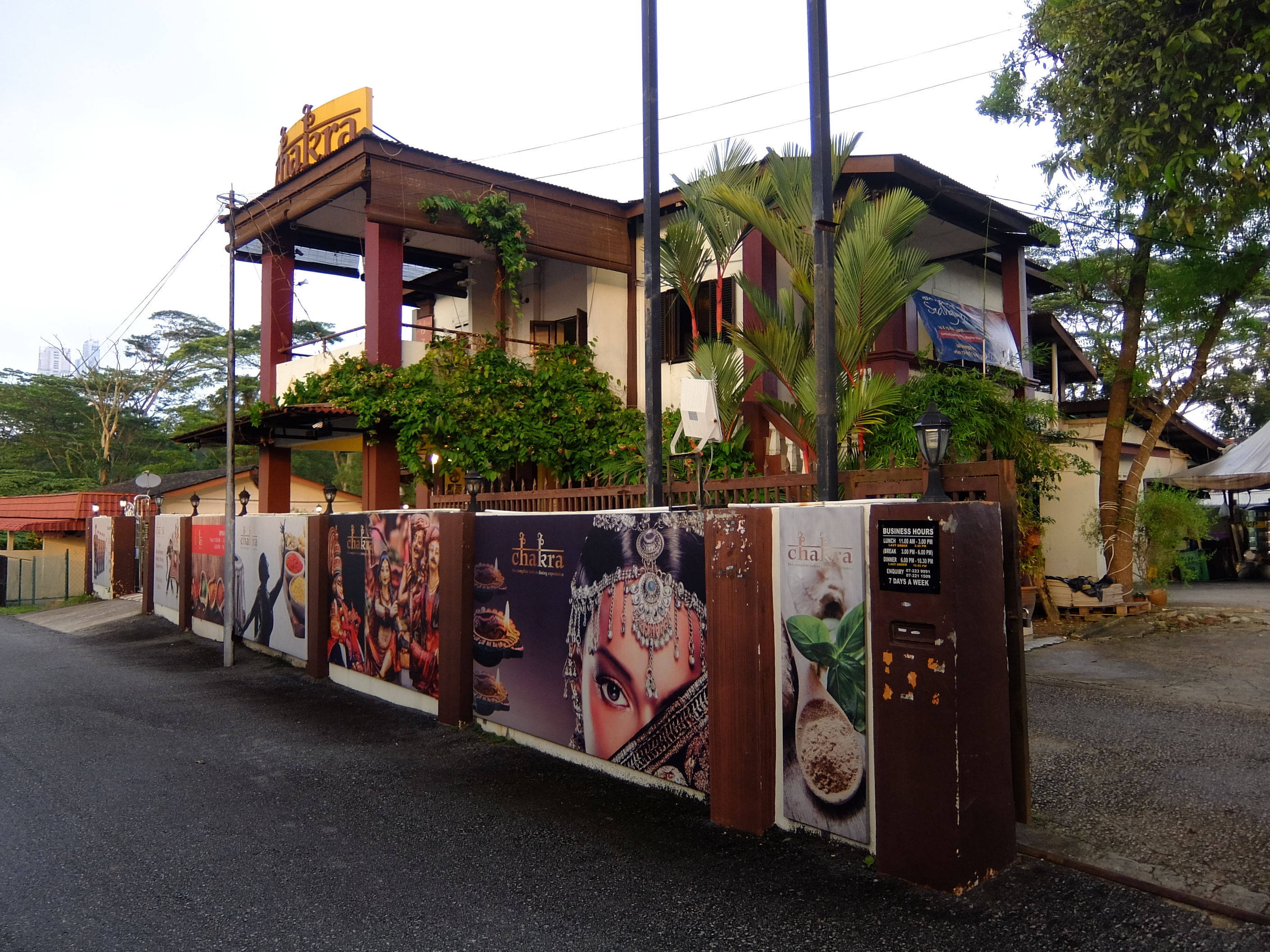 Chakra Restaurant, Kampung Bahru, Johor Bahru, Johor, Malaysia